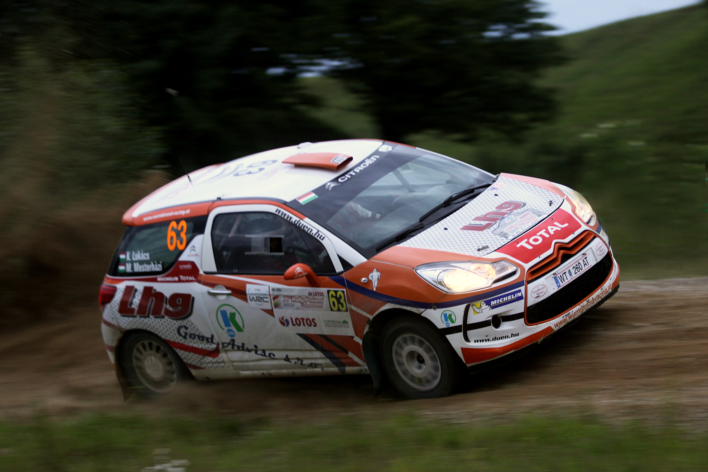 Citroen driven by Lukács Kornél